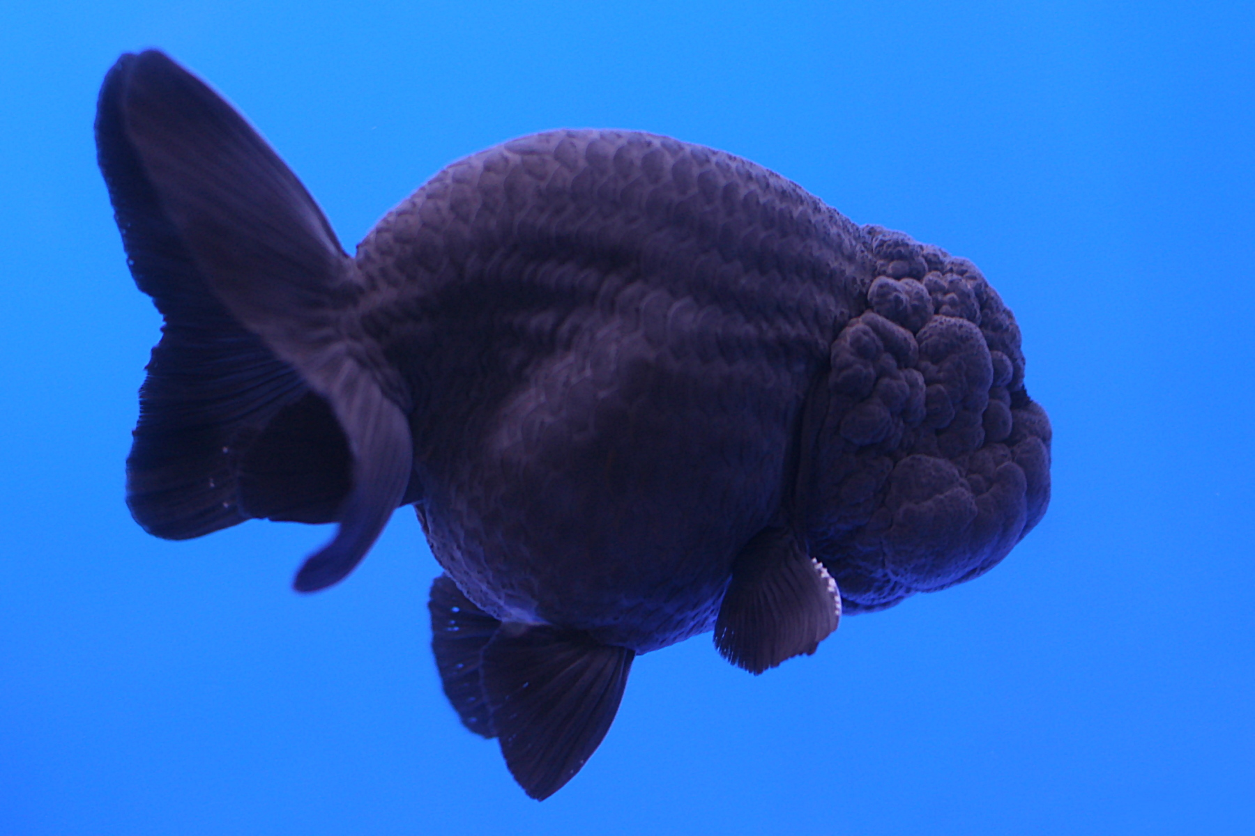 A black ranchu goldfish from The 7th "Pramong Nomjai Thaituala" Thailand Tropical Fish Competition 2008.